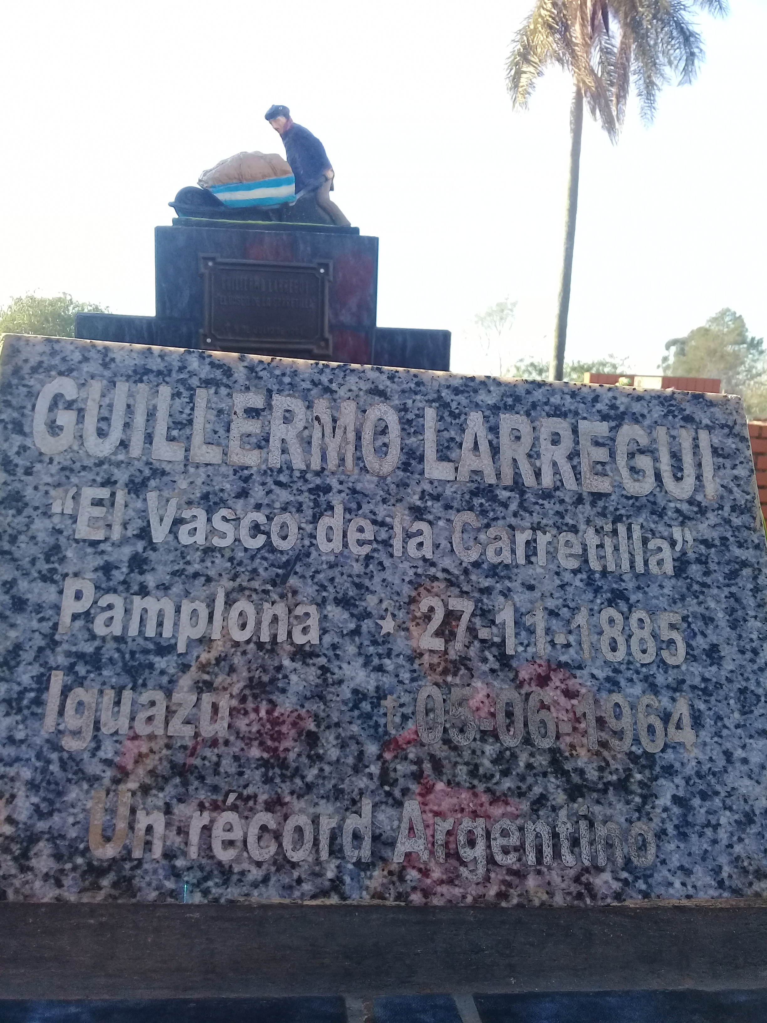 Guillermo Larregui, El Vasco De La Carretilla. Personaje que se enamoró de Iguazú y sus Cataratas. Recorrió nuestros país llegando a Bolivia y Chile, siempre con su carretilla en mano, buscando "el lugar". Se enamoró de la Tierra de Las Cataratas donde levantó su "casitas de hadas". Panteon del vasco de la carretilla